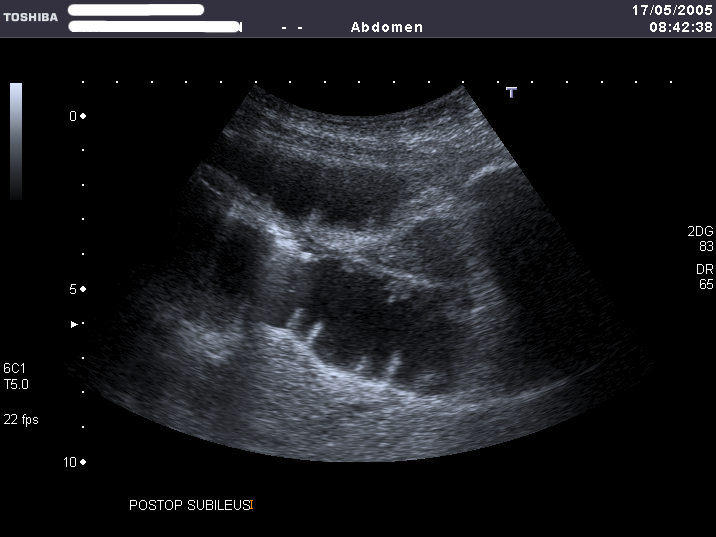 Ileus of the small intestine after surgery. This image is frim User:Rho and is in the public domain.